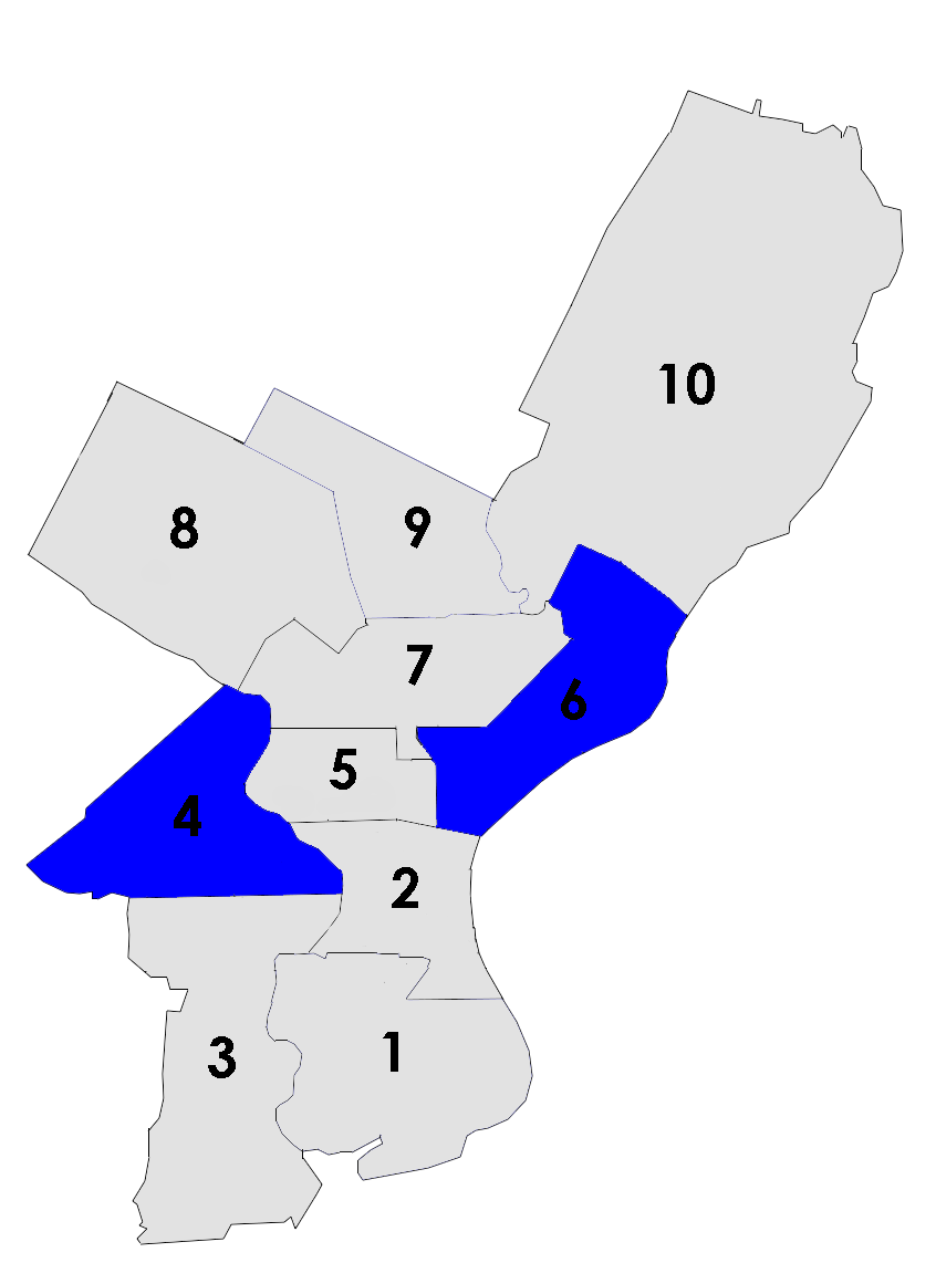 Philadelphia city council districts, highlighting the special election in the 4th and 6th districts in 1960.